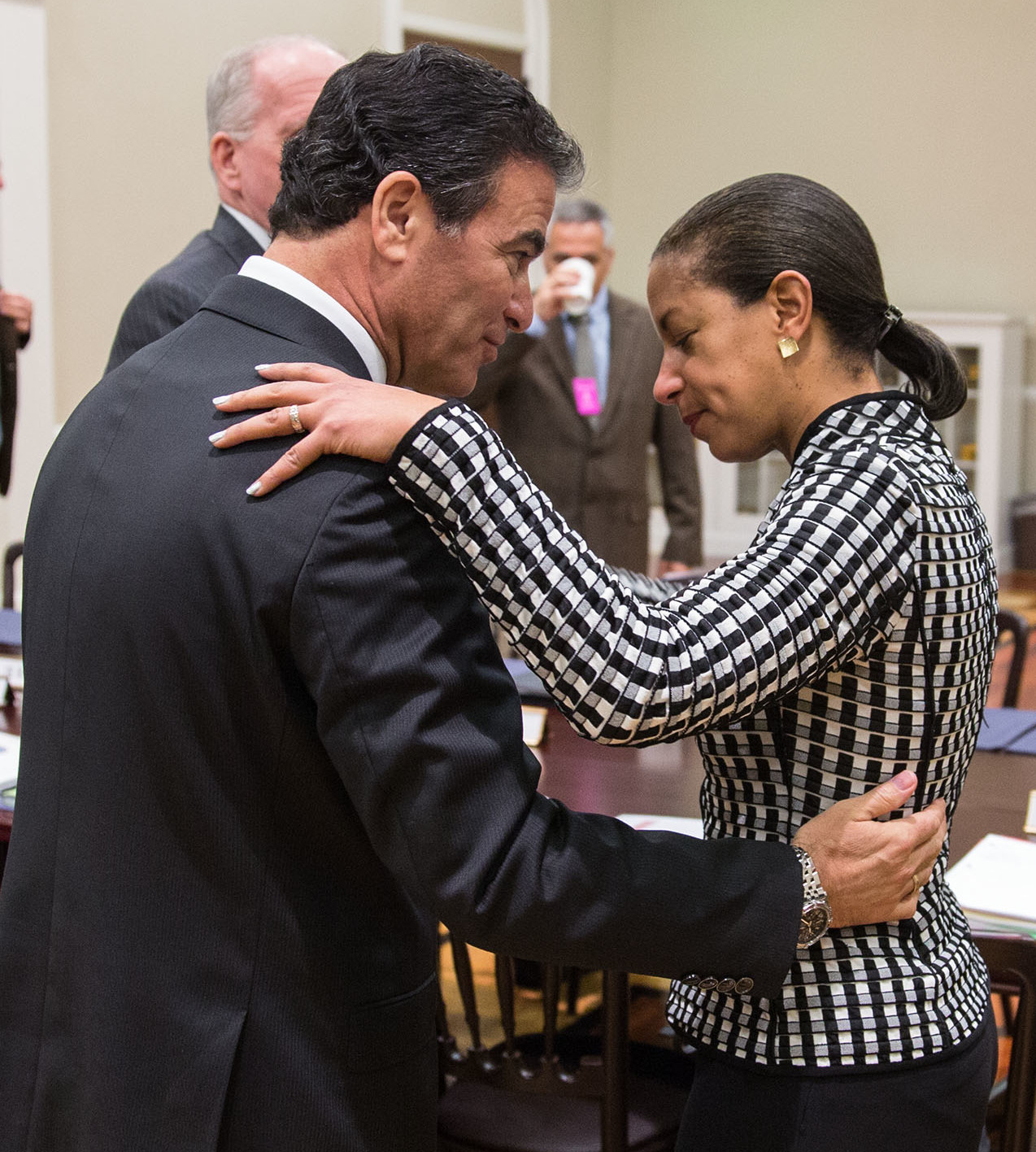 National Security Advisor Susan E. Rice greets Yossi Cohen, National Security Advisor to Prime Minister Benjamin Netanyahu of Israel, prior to a meeting in the Eisenhower Executive Office Building of the White House Oct. 30, 2014. (Official White House Photo by Chuck Kennedy).